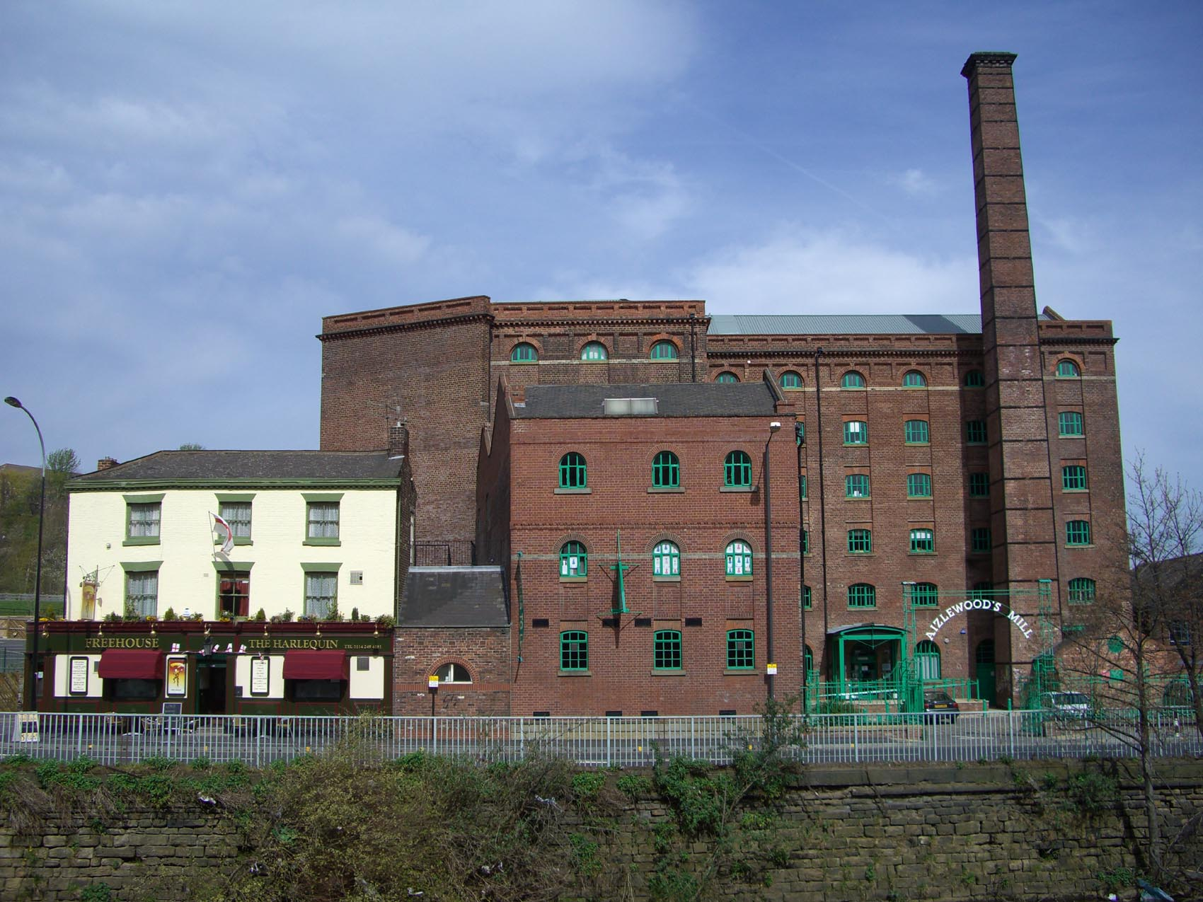 Aizlewood's Mill, Nursery Street, Sheffield, South Yorkshire, seen from the west from across the River Don. On the left at the junction with Spitalfields is the Harlequin pub.